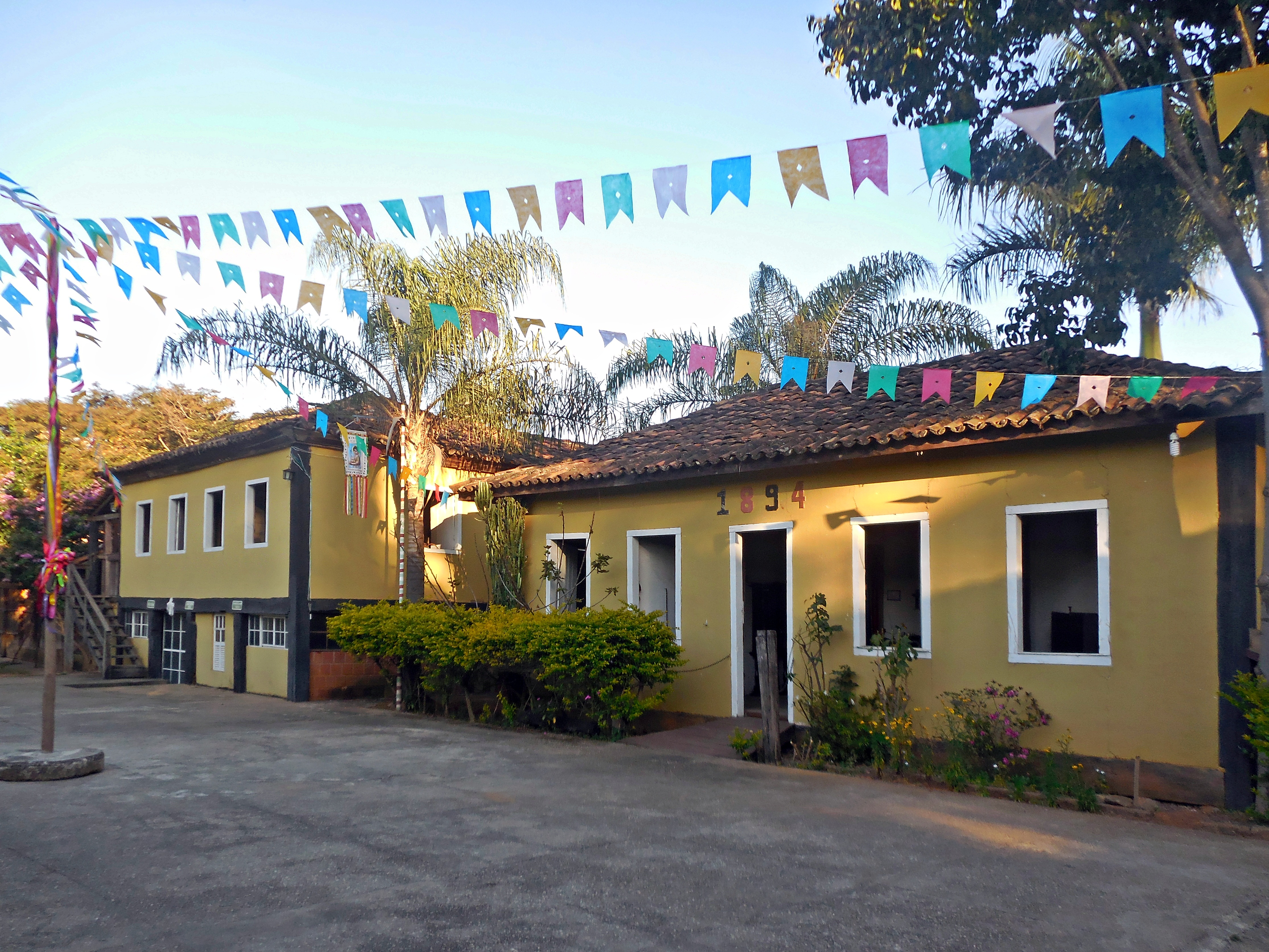 House in the Instituto Hélio Amaral, in Caratinga, Minas Gerais, Brazil.